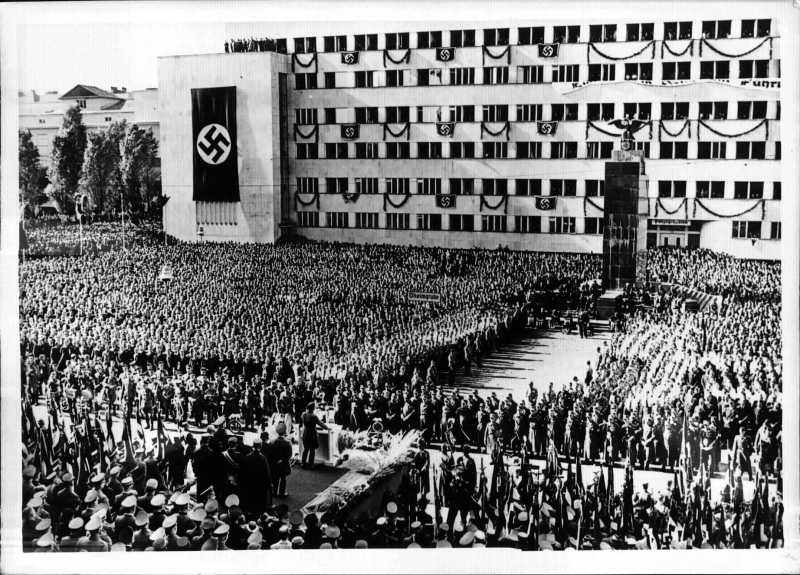 Sejmu Śląskiego square in Katowice, Nazi Tag der Freiheit festival, the speech of Joseph Wagner (1899–1945).